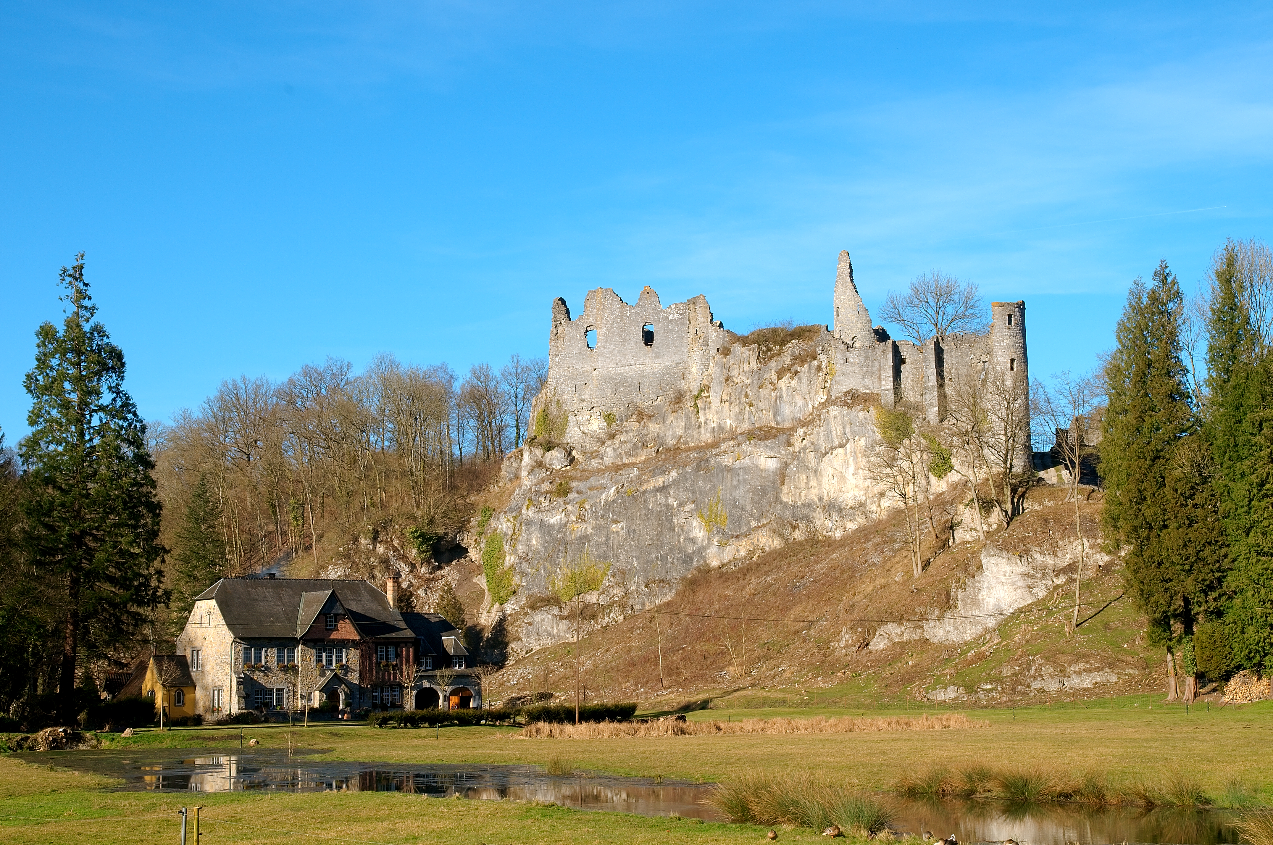 Falaën (Belgium), the Montaigle castle ruins (XIVth century)